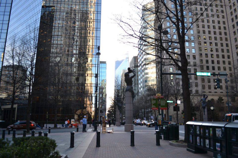 The Square, Uptown Charlotte 2012